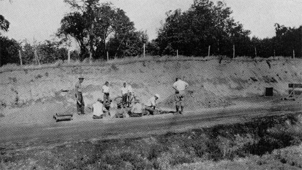 Photograph of the second excavation of "Minnesota Woman" in 1931.